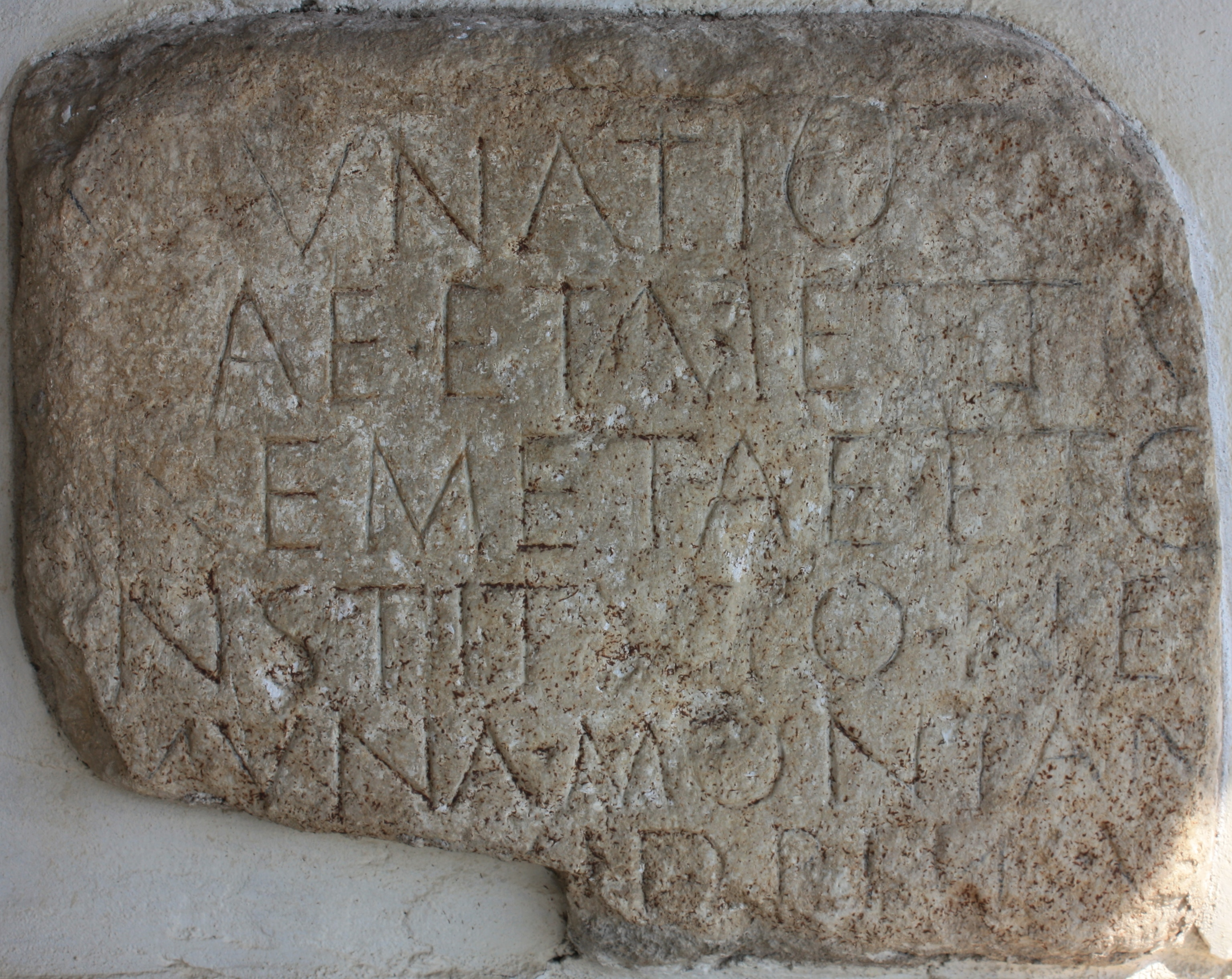 Roman epitaph at the church of Tschrietes in the community of Griffen